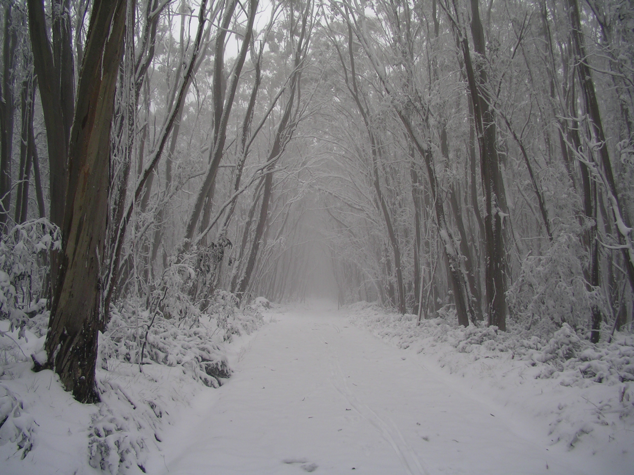 An (ungroomed) trail at Lake Mountain after recent snowfall. Taken by me Shogun 10:50, 17 February 2006 (UTC)